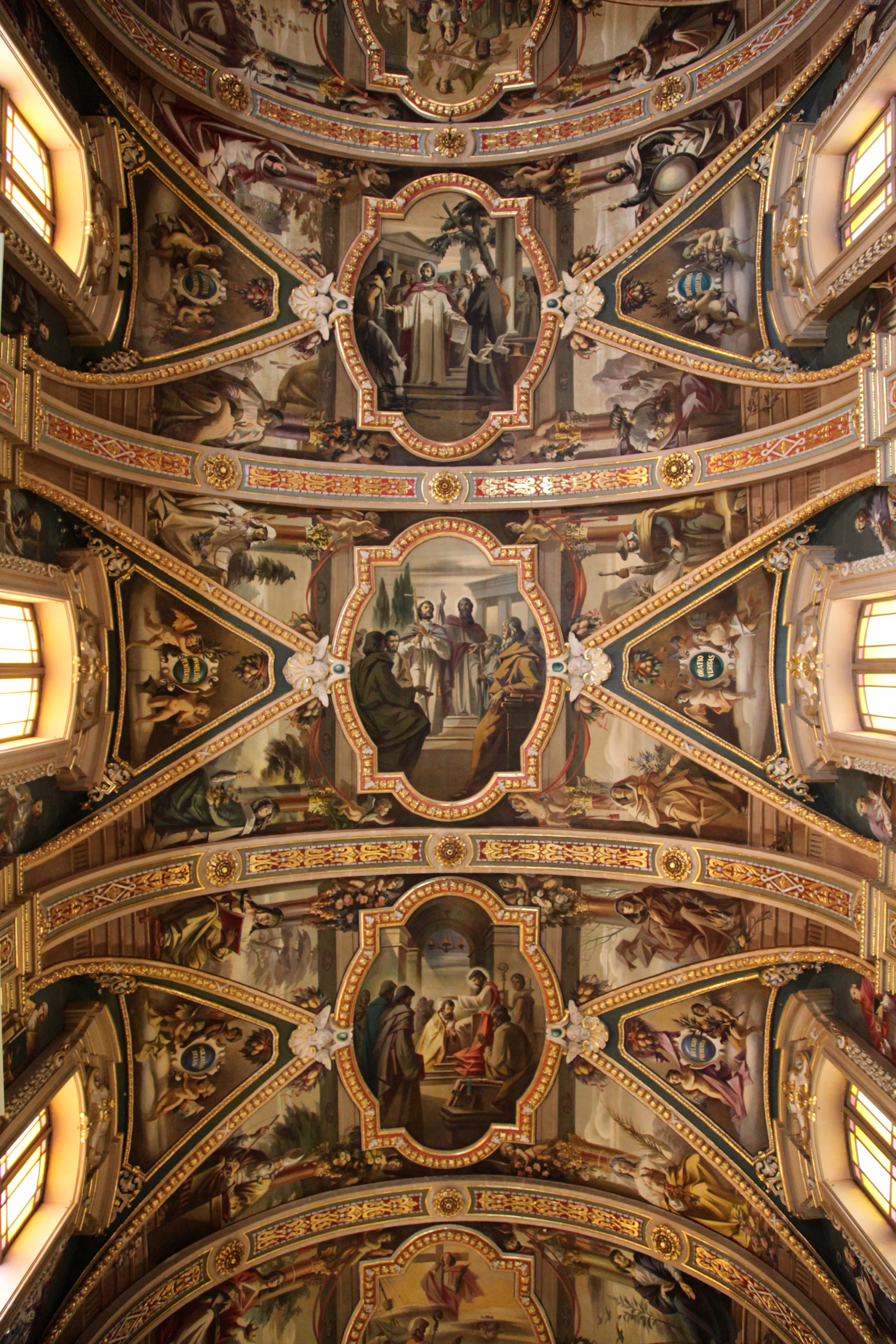 St. Publius Parish Church, Triq San Publiju in Floriana, Malta